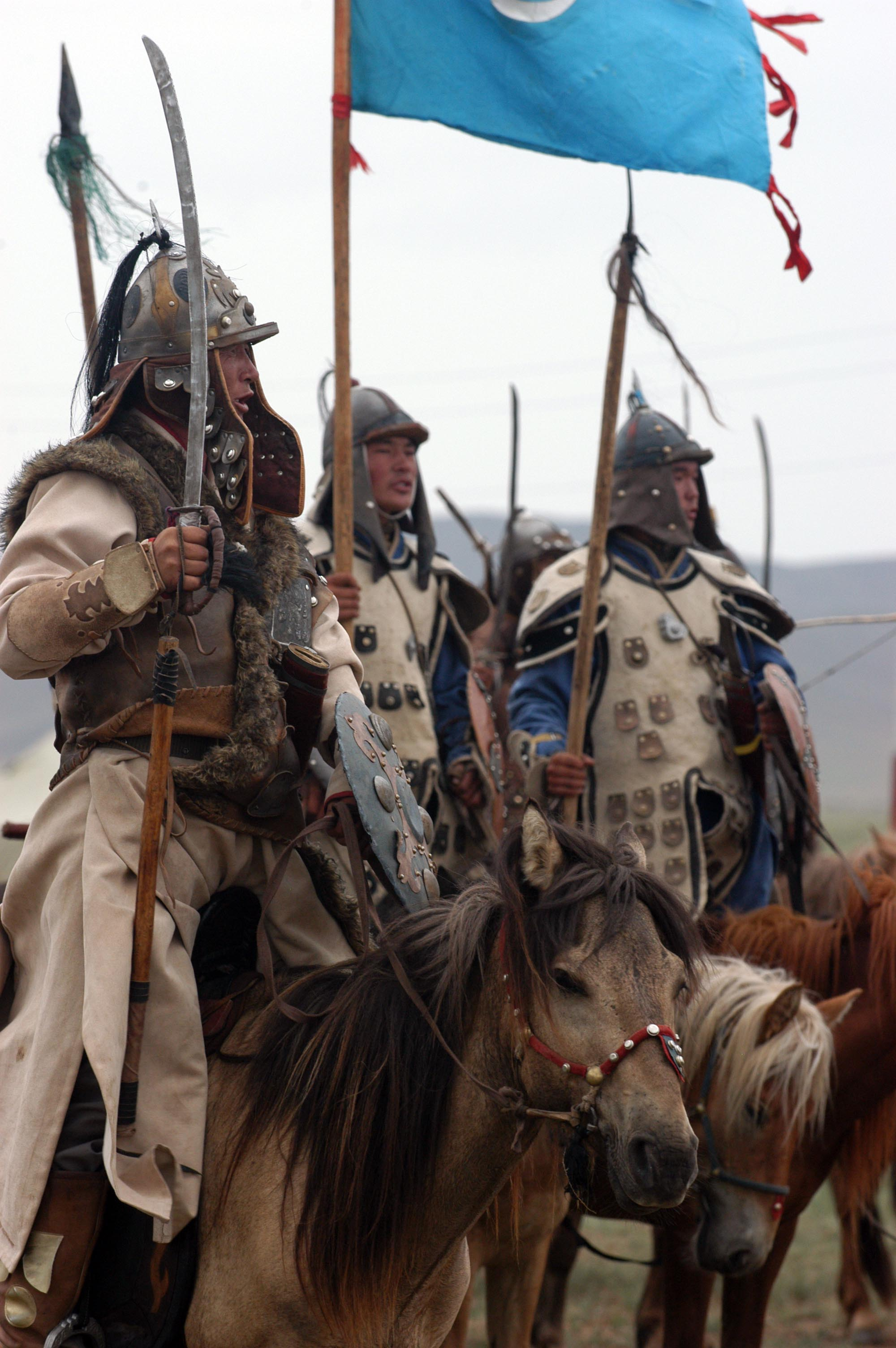 FIVE HILLS TRAINING CENTER, Mongolia (Aug. 1, 2007) â€“ Horse-mounted members of the Mongolian Armed Forces honor their warrior heritage during the opening ceremony of exercise Khaan Quest 07 here Aug. 1. Approximately 1,000 multinational service members converged on the training center here for exercise Khaan Quest 07 to increase their peacekeeping abilities. (Official U. S. Marine Corps photo by Sgt. G. S. Thomas)